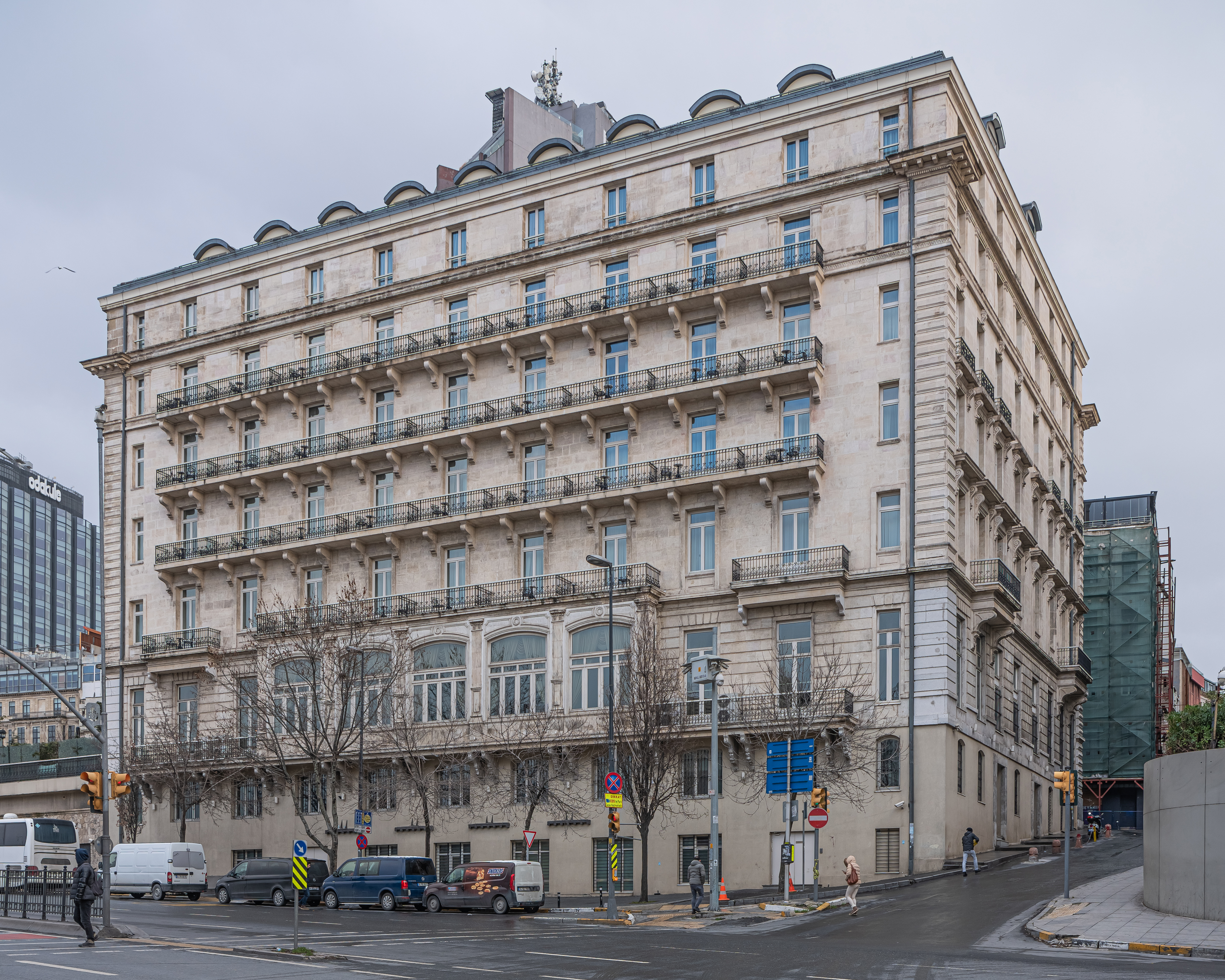 Pera Palace Hotel in Istanbul, Turkey